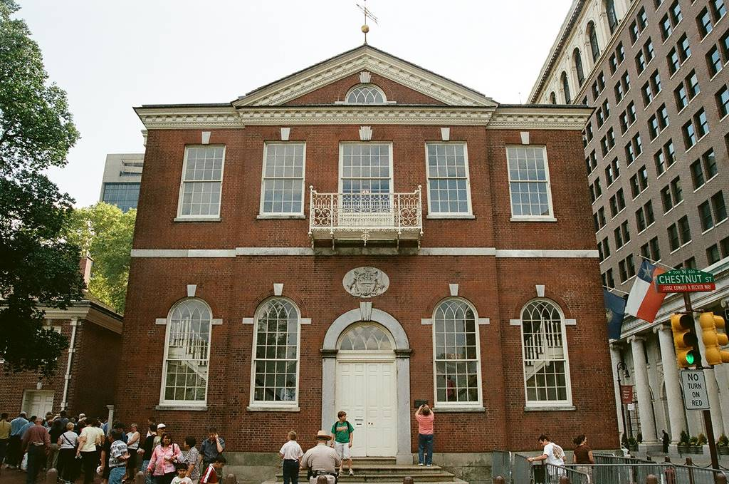 Exterior Congress Hall in Philadelphia, Pennsylvania